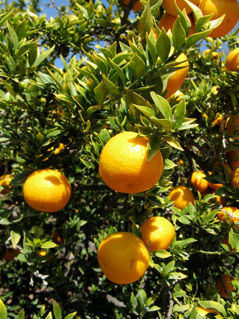 aka Citrus aurantium 'Chinotto'. Photographed at the Huntington gardens, Los Angeles